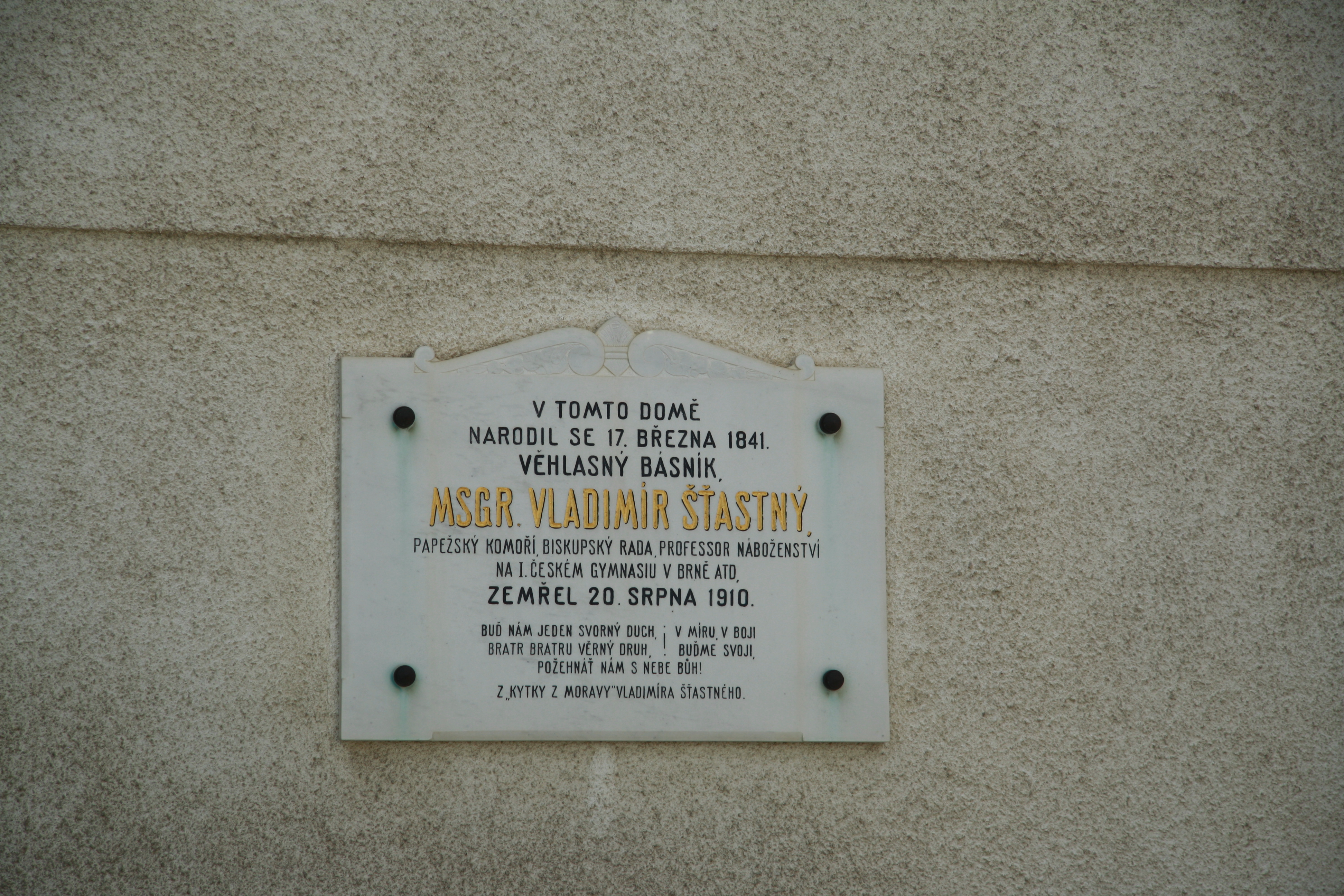 Plaque of Vladimír Šťastný at birth house in Rudíkov, Třebíč District.